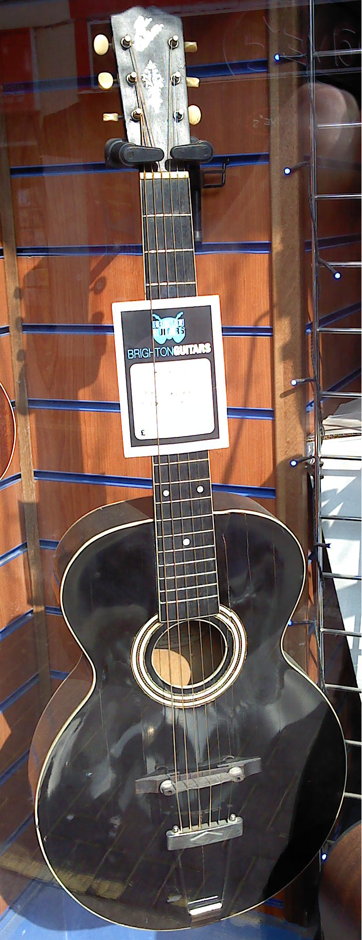 Author: Peter D Jones Source: Own work Place: Brighton, East Sussex,UK Time: June 2011 Description: An early Gibson (labelled "The Gibson" on the headstock) acoustic steel string guitar displayed in a music shop window. The shop have dated it to 1918. The guitar has a 13th fret neck join circular soundhole and floating-bridge-and-tailpiece. It is of interest as representing the style of Gibson leading to the classic f-hole archtop design by Lloyd Loar.1Z (talk) 21:50, 30 July 2011 (UTC)